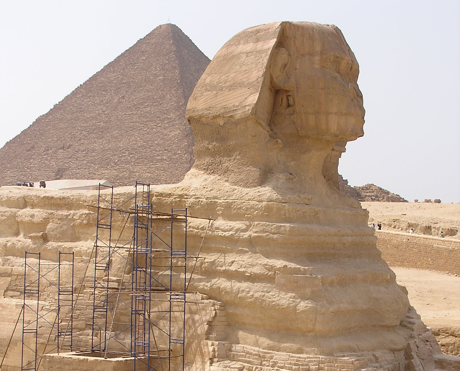 The Great Sphinx during reconstruction June 2006.